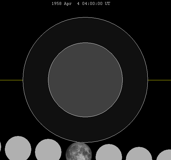 April 1958 lunar eclipse chart of moon's path through the earth's shadow. thumb